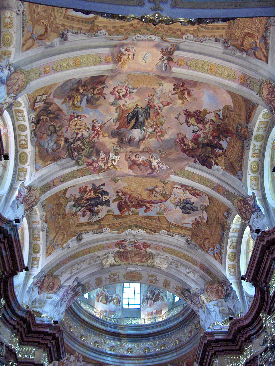 Ceiling fresco "St. Benedict's triumphal ascent to heaven" by Johann Michael Rottmayr (1721); Melk Abbey, Austria